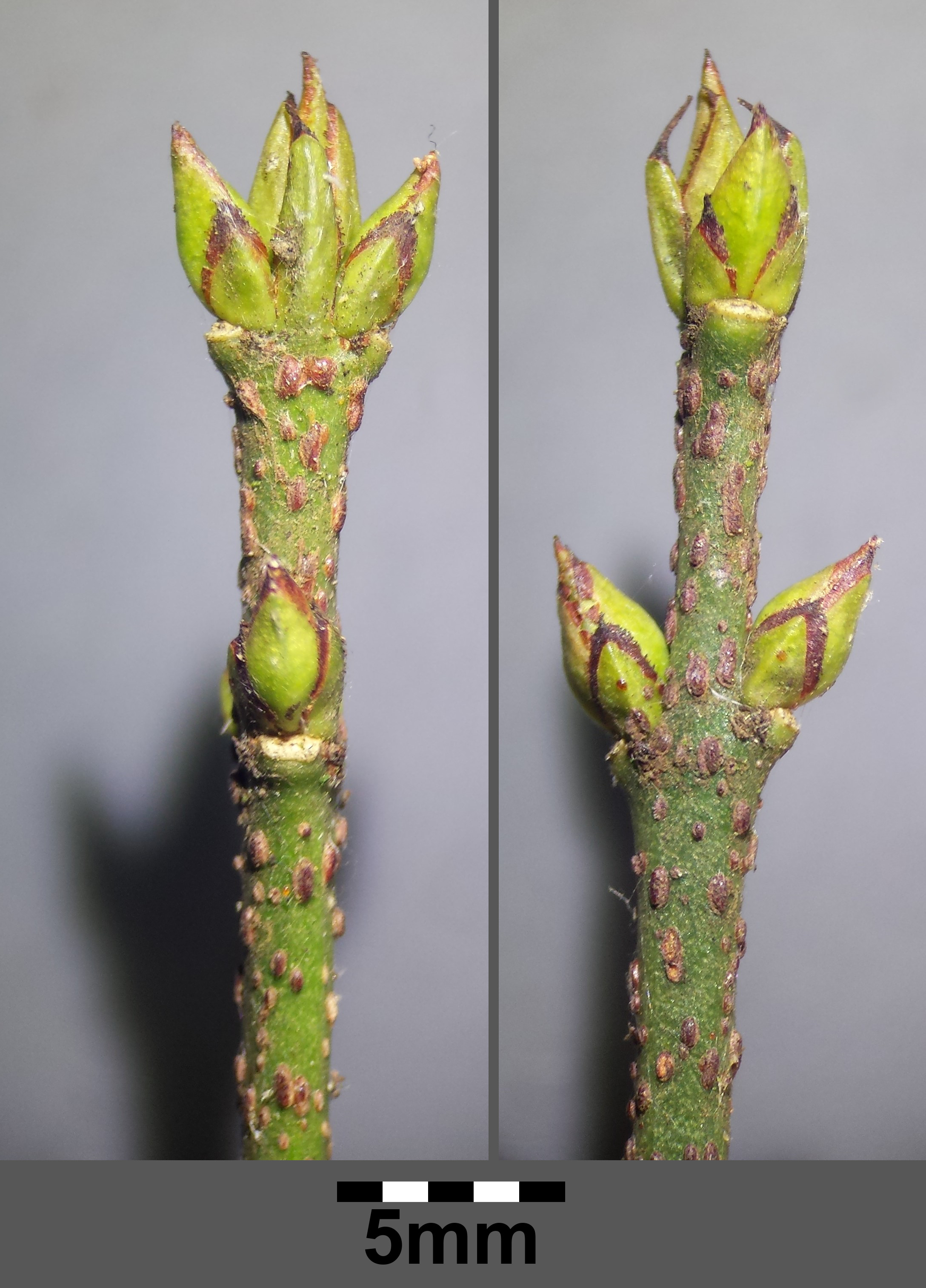 Buds Taxonym: Euonymus verrucosus ss Fischer et al. EfÖLS 2008 ISBN 978-3-85474-187-9 Location: Herrenholz, Vienna-Floridsdorf - ca. 225 m a.s.l. Habitat: Carpinion betuli